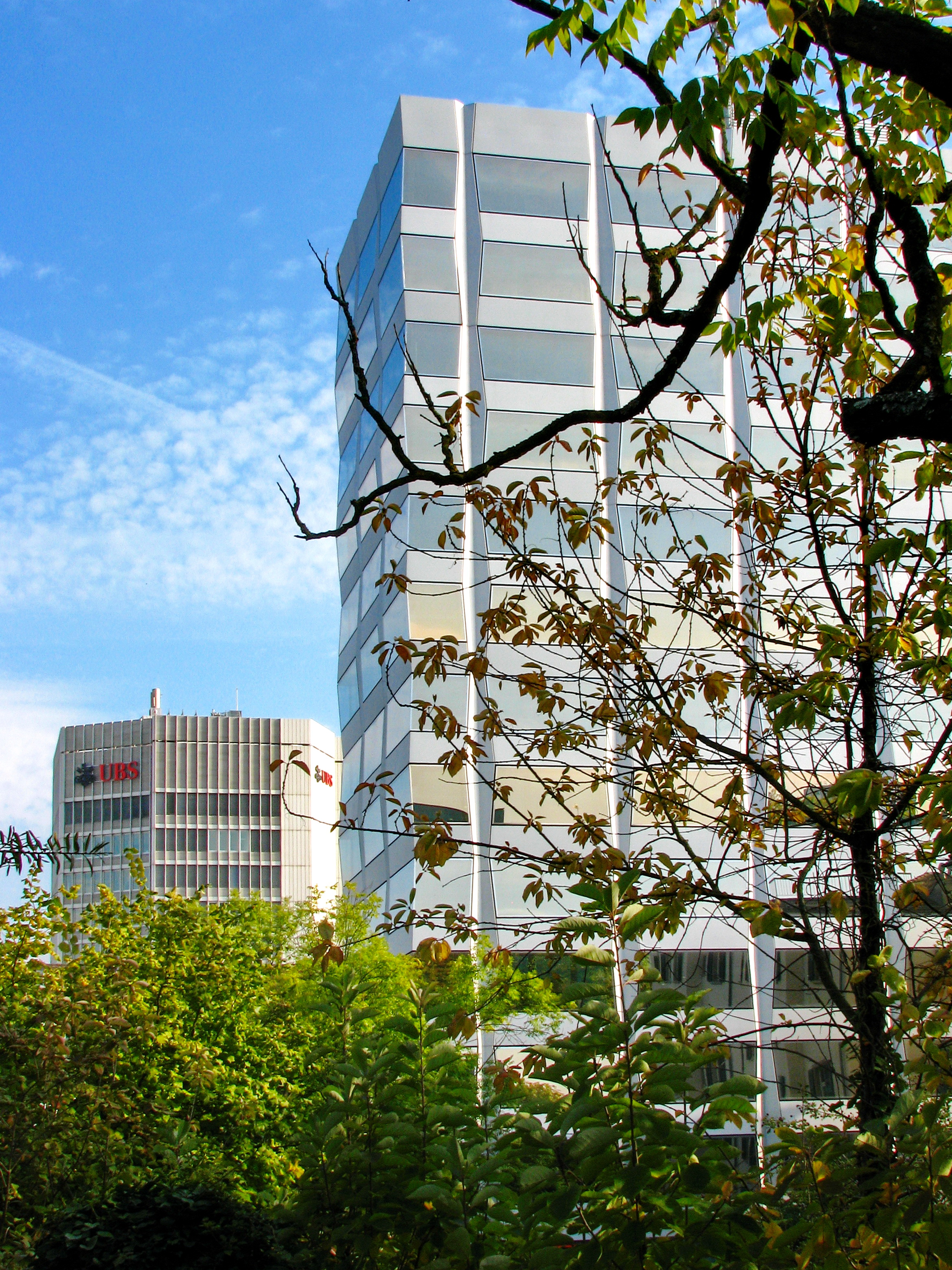 Zürich : Botanical Garden «zur Katz» & 'Völkerkundeseum' (Museum of Ethnology), University of Zürich. Arboretum and SIA-/UBS-Buildings nearby.